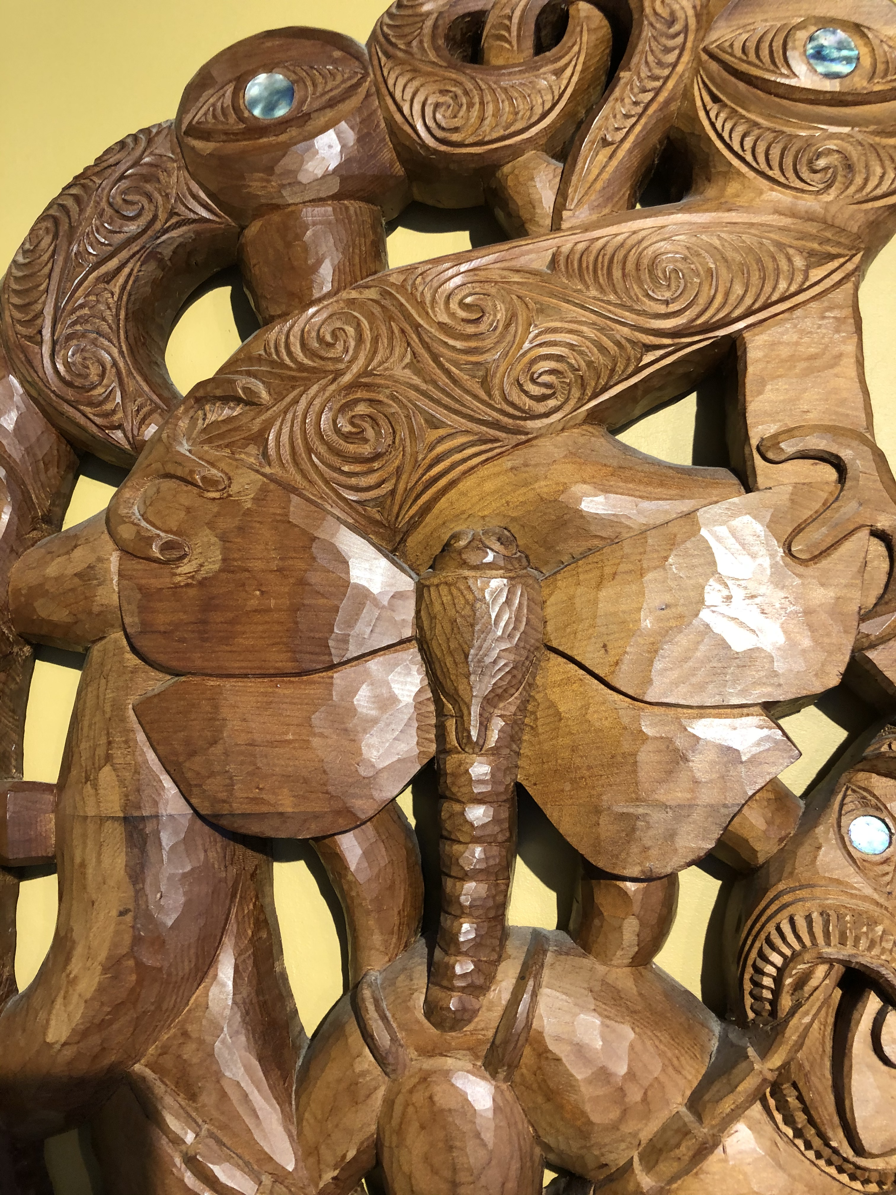 New Zealand Puriri Moth carved by Denis Conway onto a Maori pare, on display at the New Zealand Arthropod Collection at Landcare Research, Auckland.